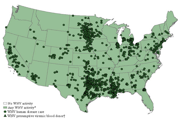 Reported cases of West Nile virus infection in the continental United States as of August 28, 2012.